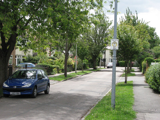 St Margaret's Square Syd Barrett of Pink Floyd lived at No 6 until his death in 2006.